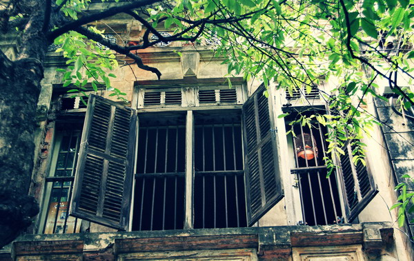 Open window of an old house, Nguyen Sieu street